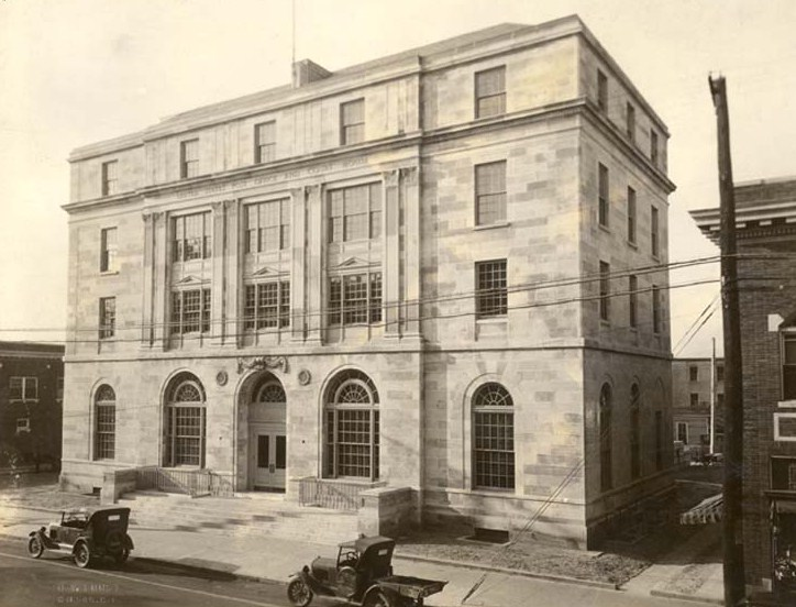 Imagination Station Science Museum, former federal courthouse & post office, 1928, Wilson (Wilson County, North Carolina) cropped Source: National Archives, RG 121-BS, Box 66, Folder U, Print 1 This work is in the public domain in the United States because it is a work prepared by an officer or employee of the United States Government as part of that person’s official duties under the terms of Title 17, Chapter 1, Section 105 of the US Code. Note: This only applies to original works of the Federal Government and not to the work of any individual U.S. state, territory, commonwealth, county, municipality, or any other subdivision. This template also does not apply to postage stamp designs published by the United States Postal Service since 1978. (See § 313.6(C)(1) of Compendium of U.S. Copyright Office Practices). It also does not apply to certain US coins; see The US Mint Terms of Use. This file has been identified as being free of known restrictions under copyright law, including all related and neighboring rights.